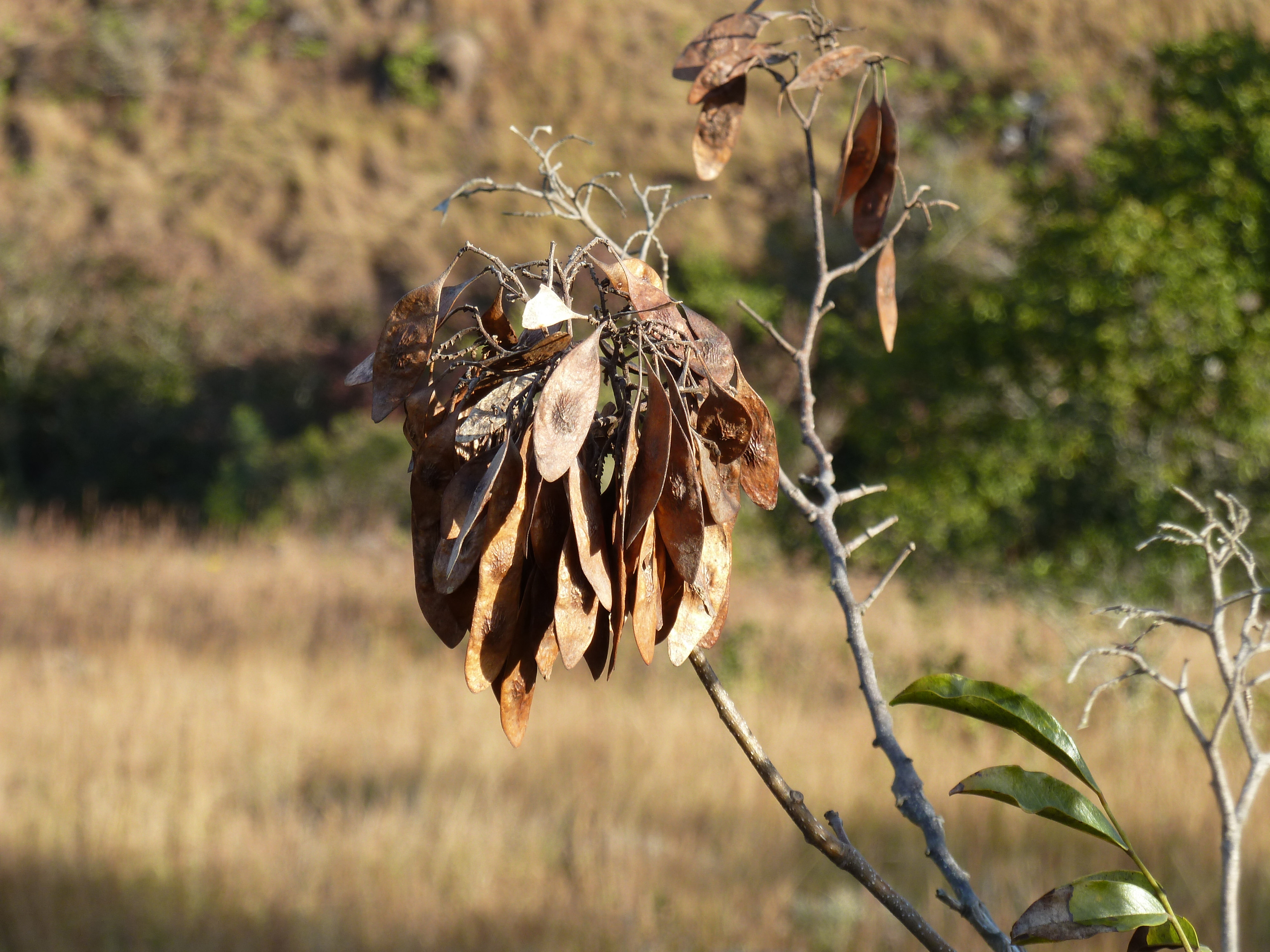 Seedpods of the Climbing flat bean, near Louwsburg, KwaZulu-Natal